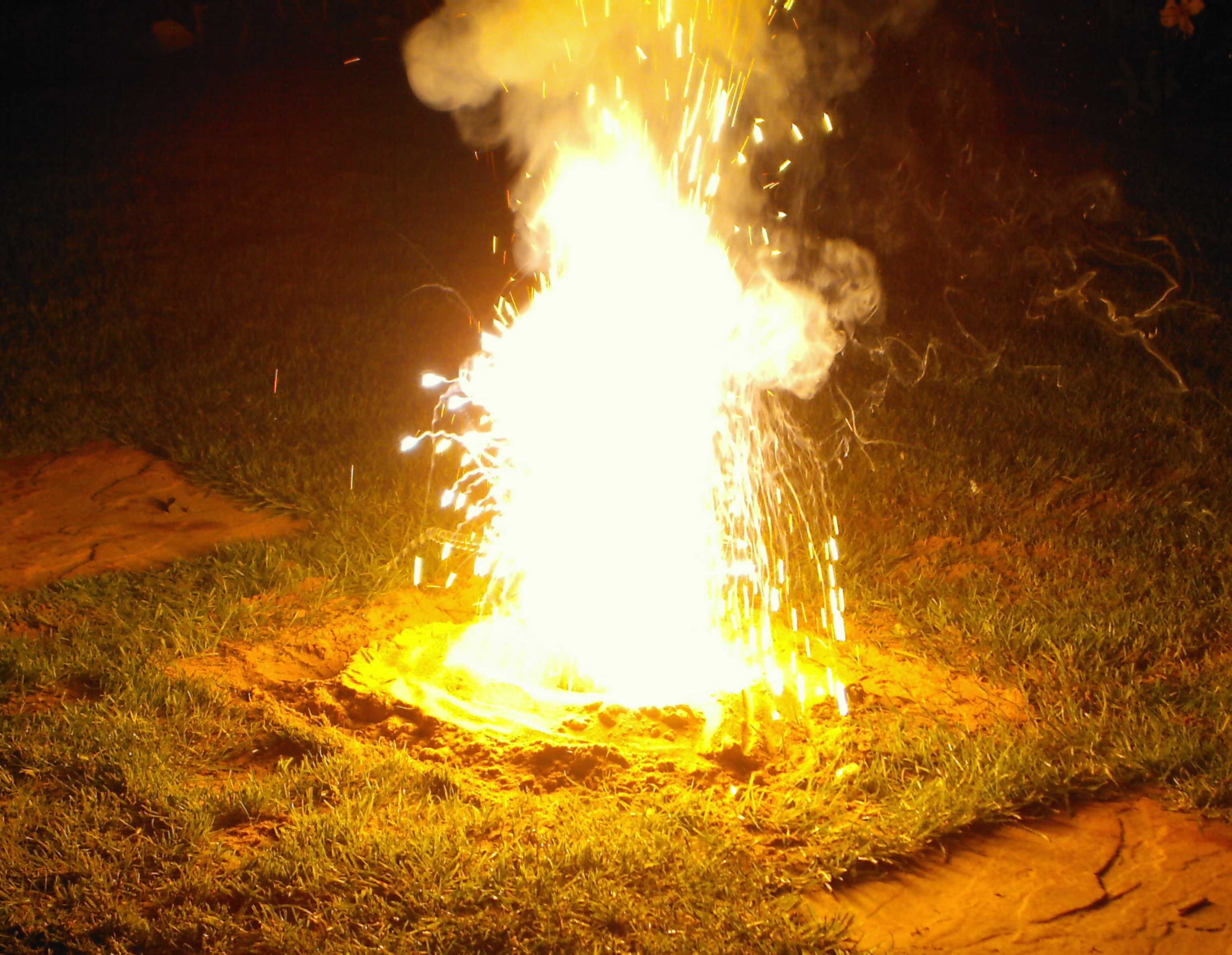 A thermite reaction using Ferric Oxide.